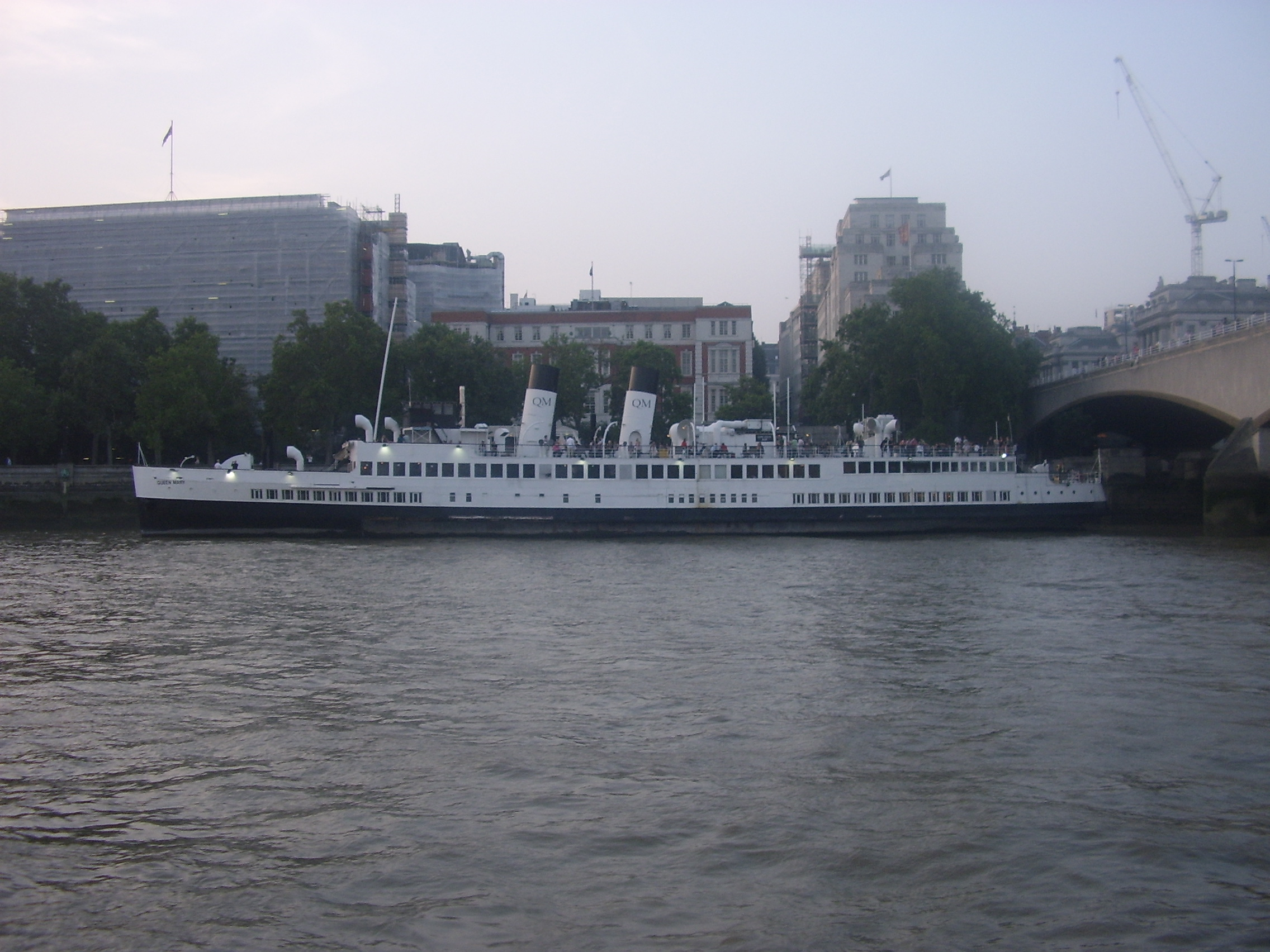 The TS Queen Mary on the backs of the Thames in 2007